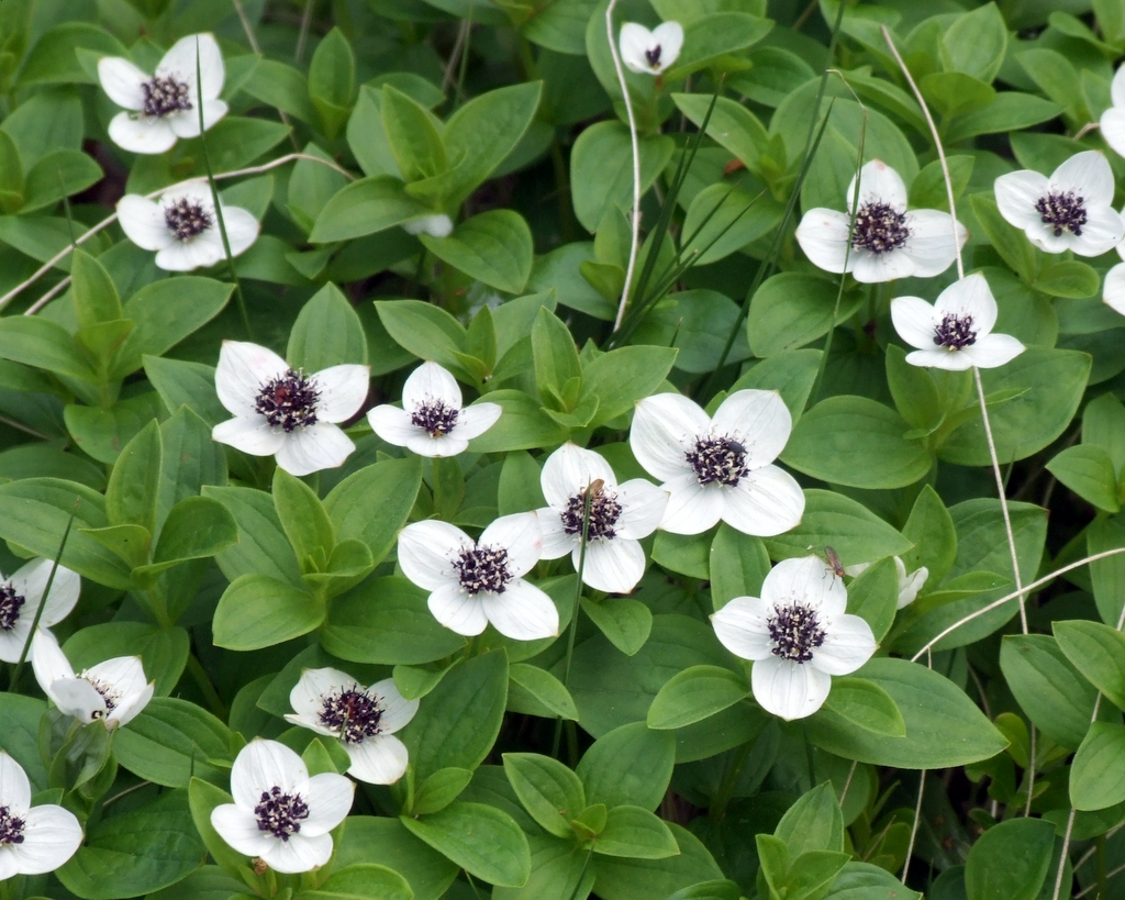 Cornus suecica on the coast of Bothnian Bay between the cities of Kemi and Oulu in Finland.